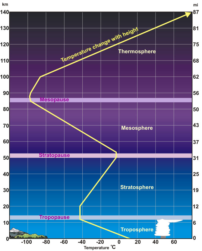 Standardized Temperature Profile An average temperature profile through the lower layers of the atmosphere. Height (in miles and kilometers) is indicated along each side. Temperatures in the thermosphere continue to climb, reaching as high as (3,600°F) 2,000°C.